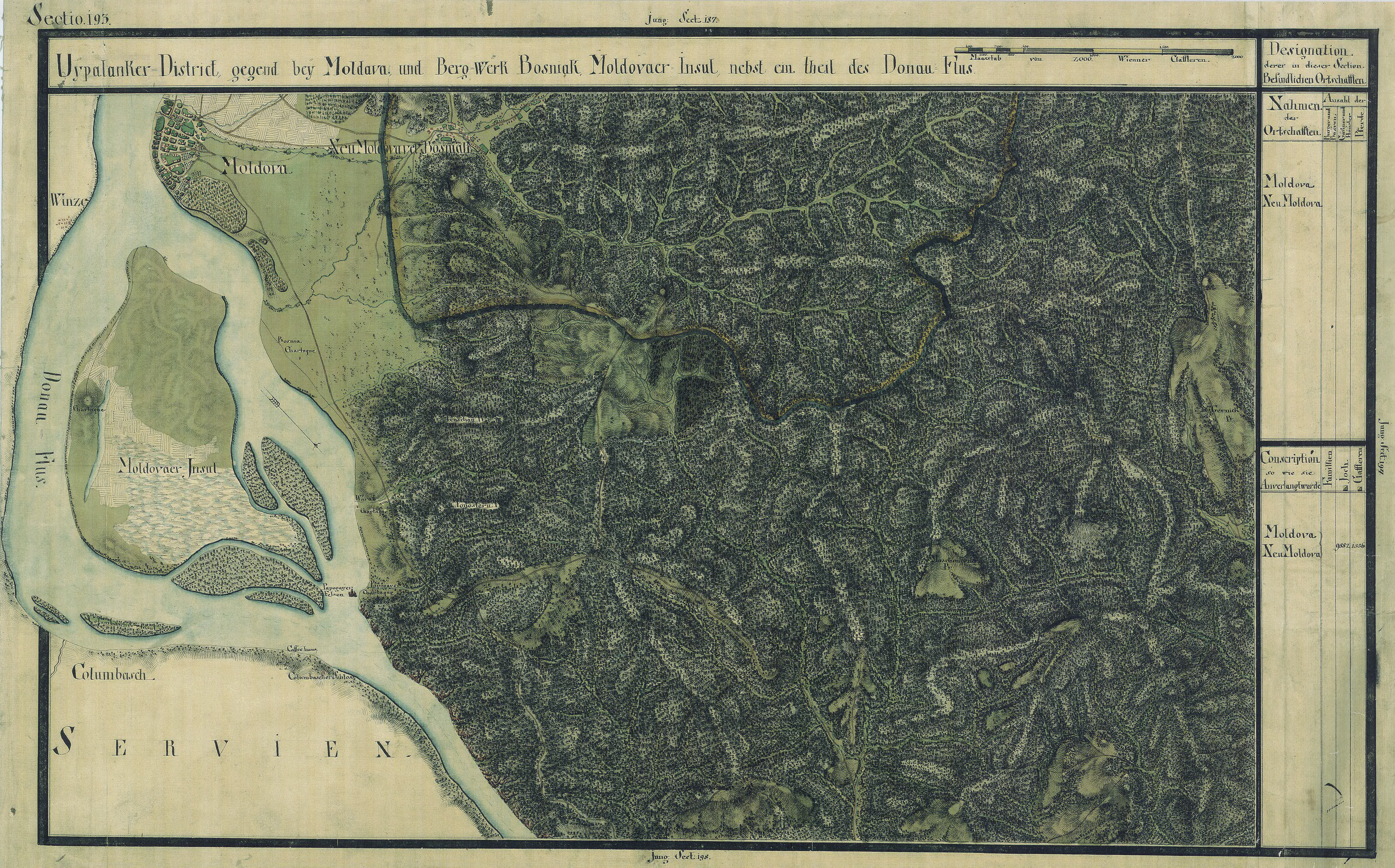 The Banat region in the cadastral maps: Josephinische Landesaufnahme, 1769-72. Josephinische Landaufnahme pg193